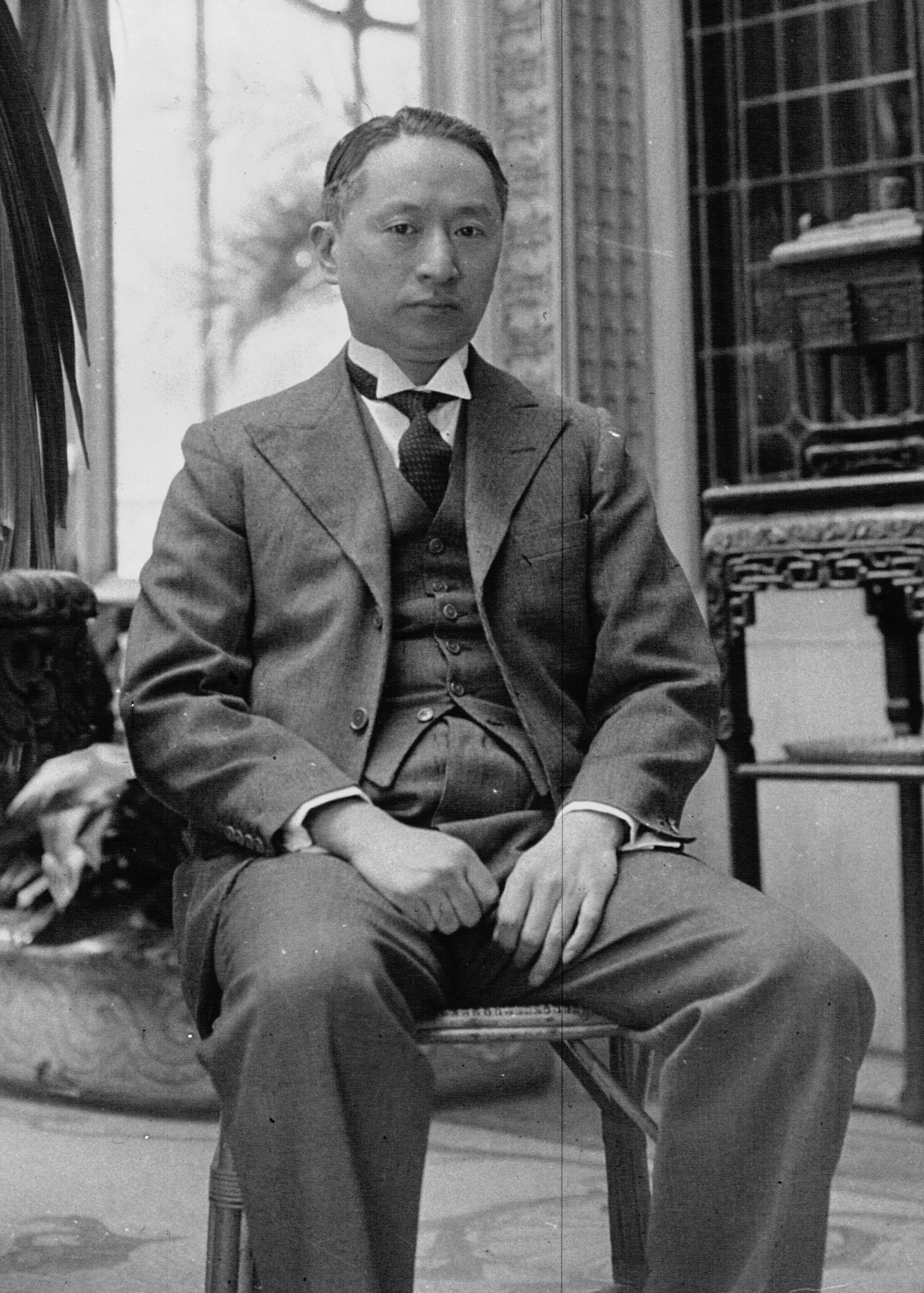 Chinese politician Wellington Koo (1888-1985) as ambassador of the Republic of China to France in 1936.